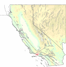 A map of the Ventura fault in Southern California, United States.